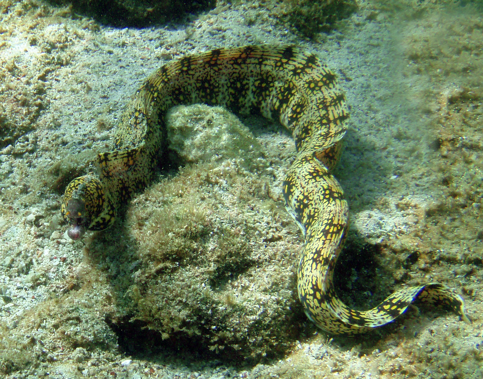 Snowflake moray, Echidna nebulosa in Kona, Island of Hawaii, Hawaii, United States